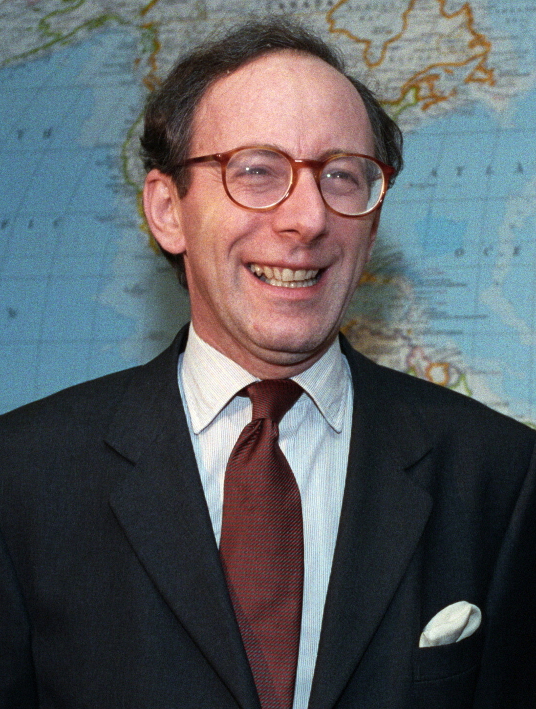 The Honorable Leslie ’Les“ Aspin (right), U.S. Secretary of Defense, poses for a picture with Malcolm Rifkind, United Kingdom Defense Minister, at the Pentagon, Washington, D.C., on April 21, 1993. OSD Package No. A07D-00185 (DOD Photo by Robert D. Ward) (Released)